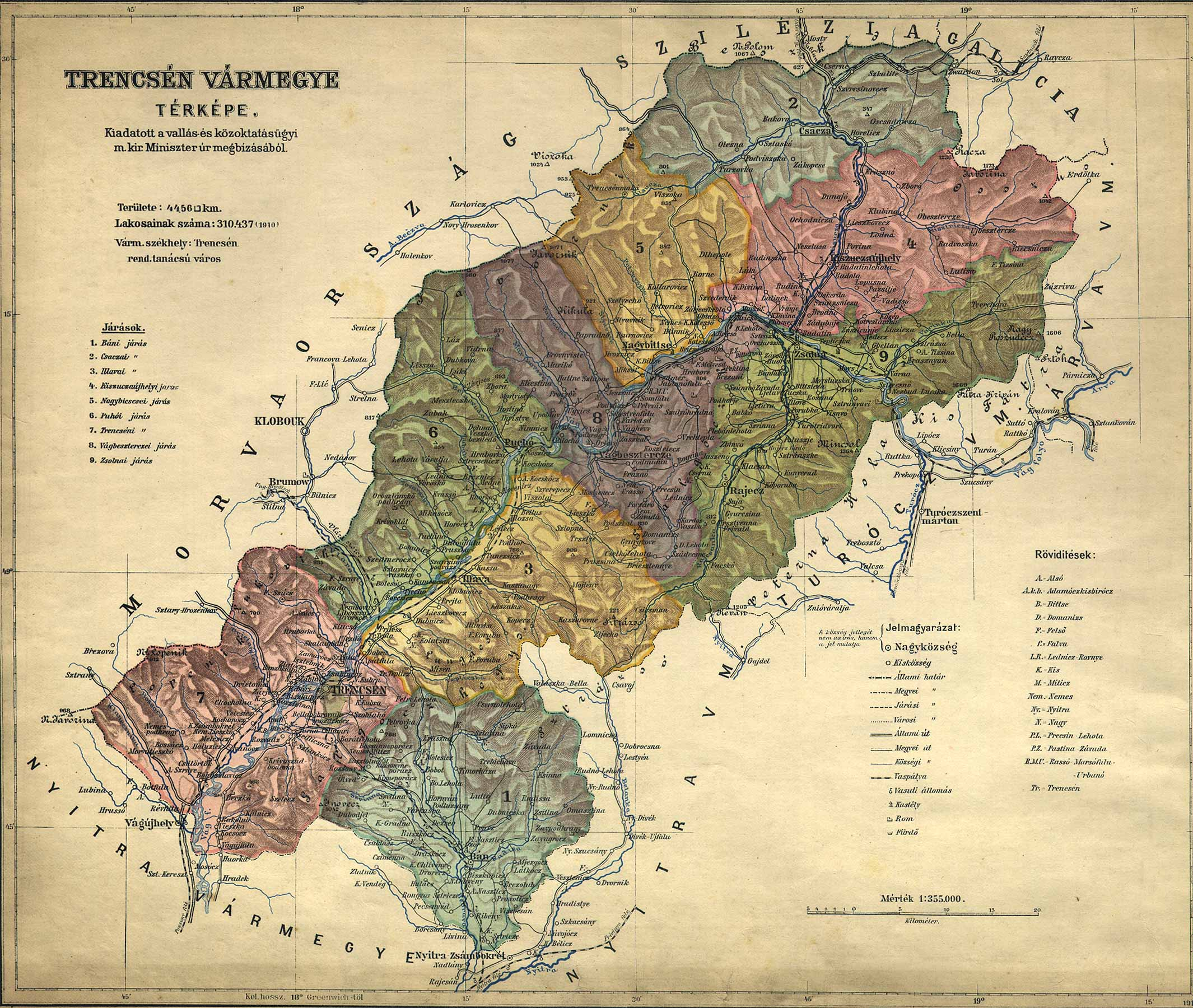 Administrative map of the county of Trencsén in the Kingdom of Hungary